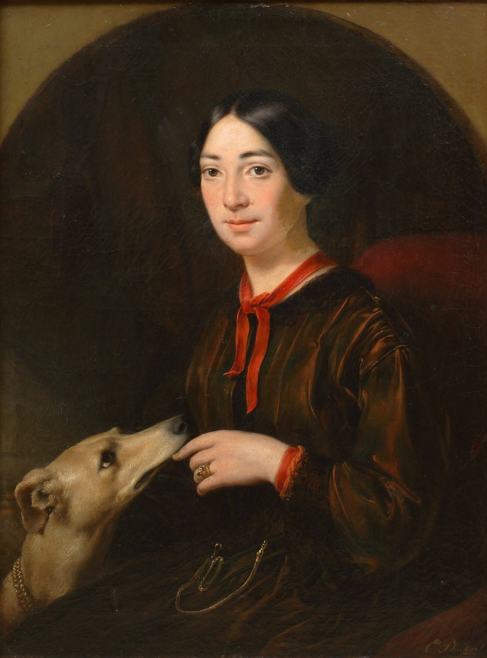 The portrait of singer Pauline Viardot